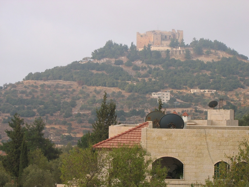 view towards Ajlun castle